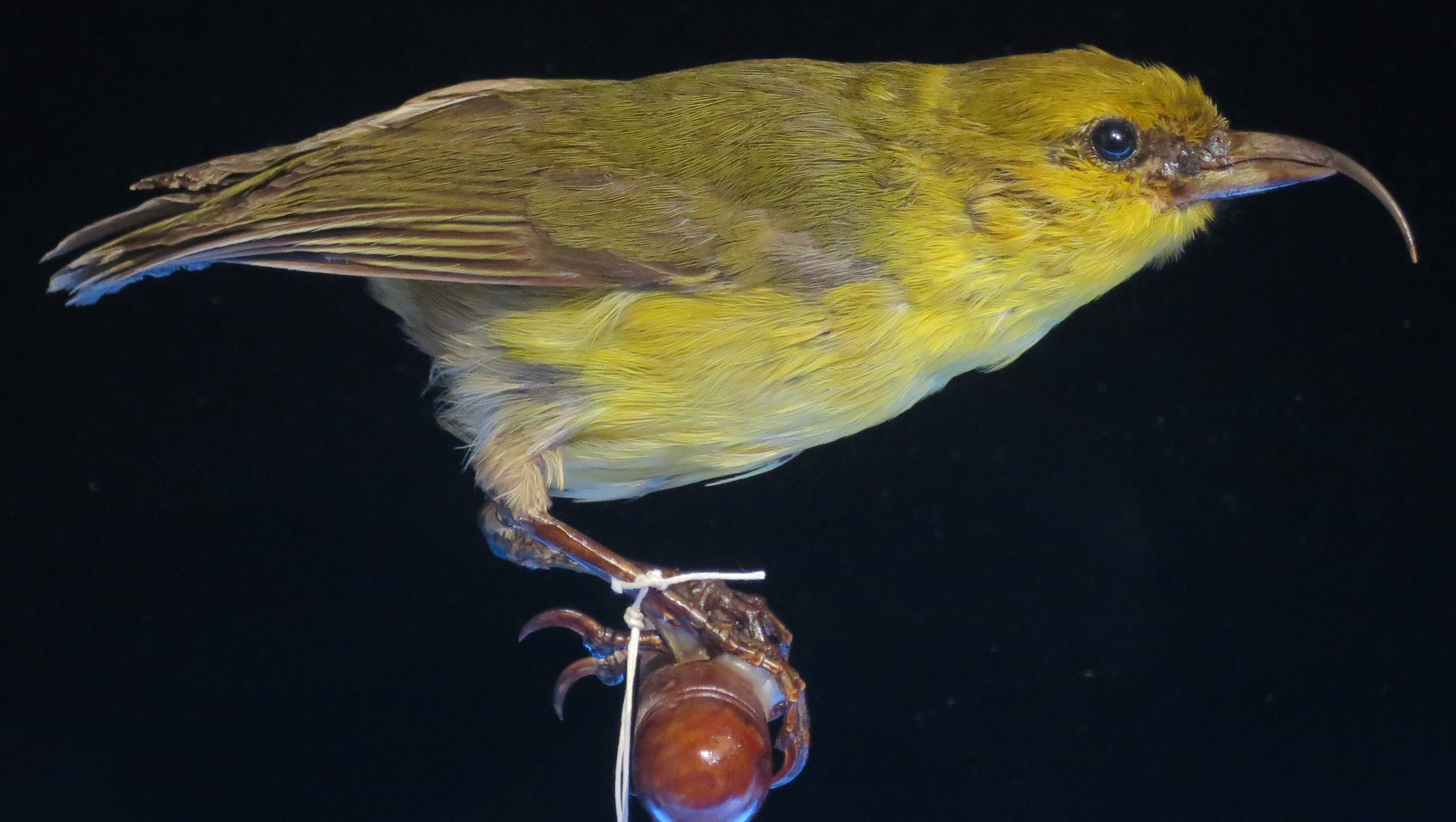 Hemingnathus wilsoni, Bishop Museum, Honolulu